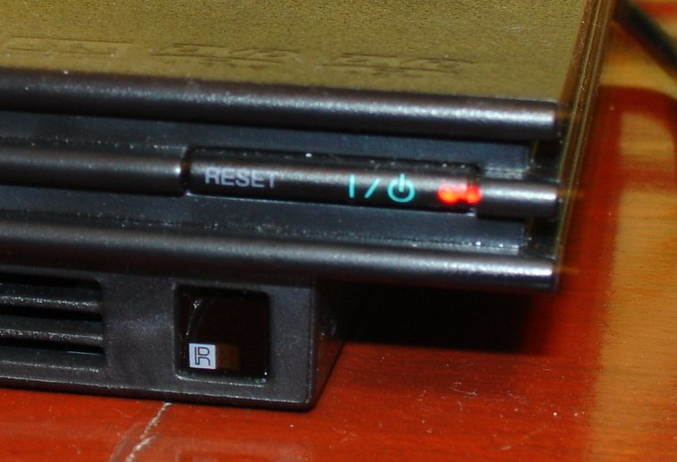 A reset button in a console Sony PlayStation 2